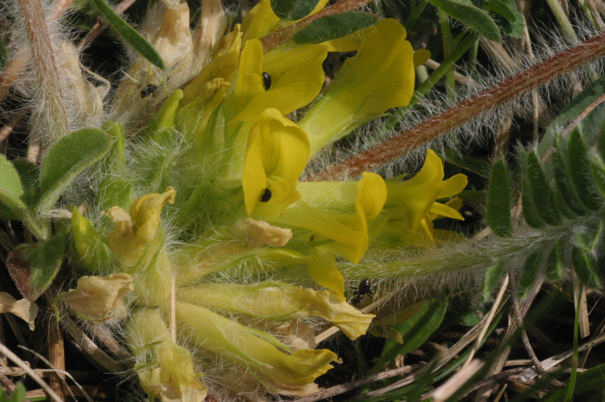 Astragalus exscapus